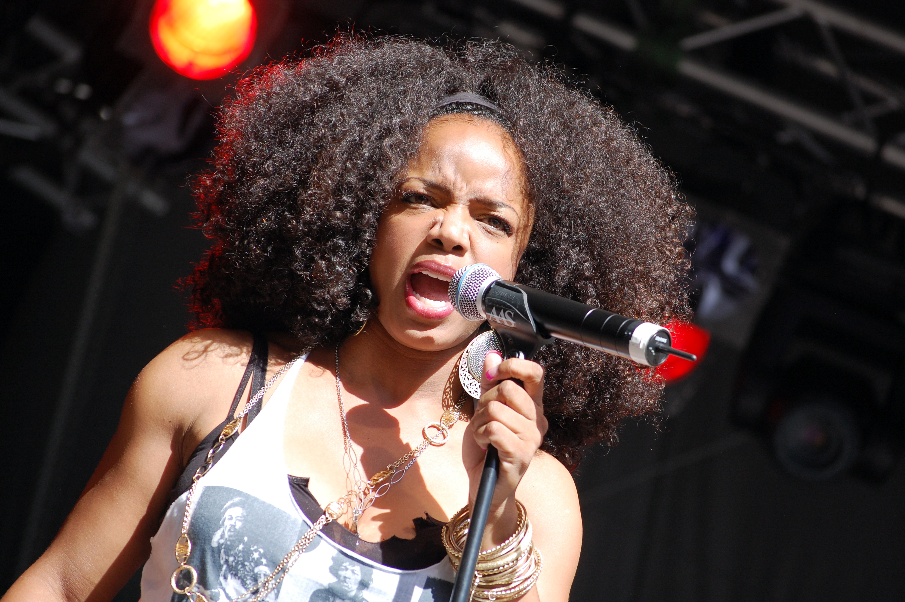 Leela James live in Stockholm Jazz Festival 2009.